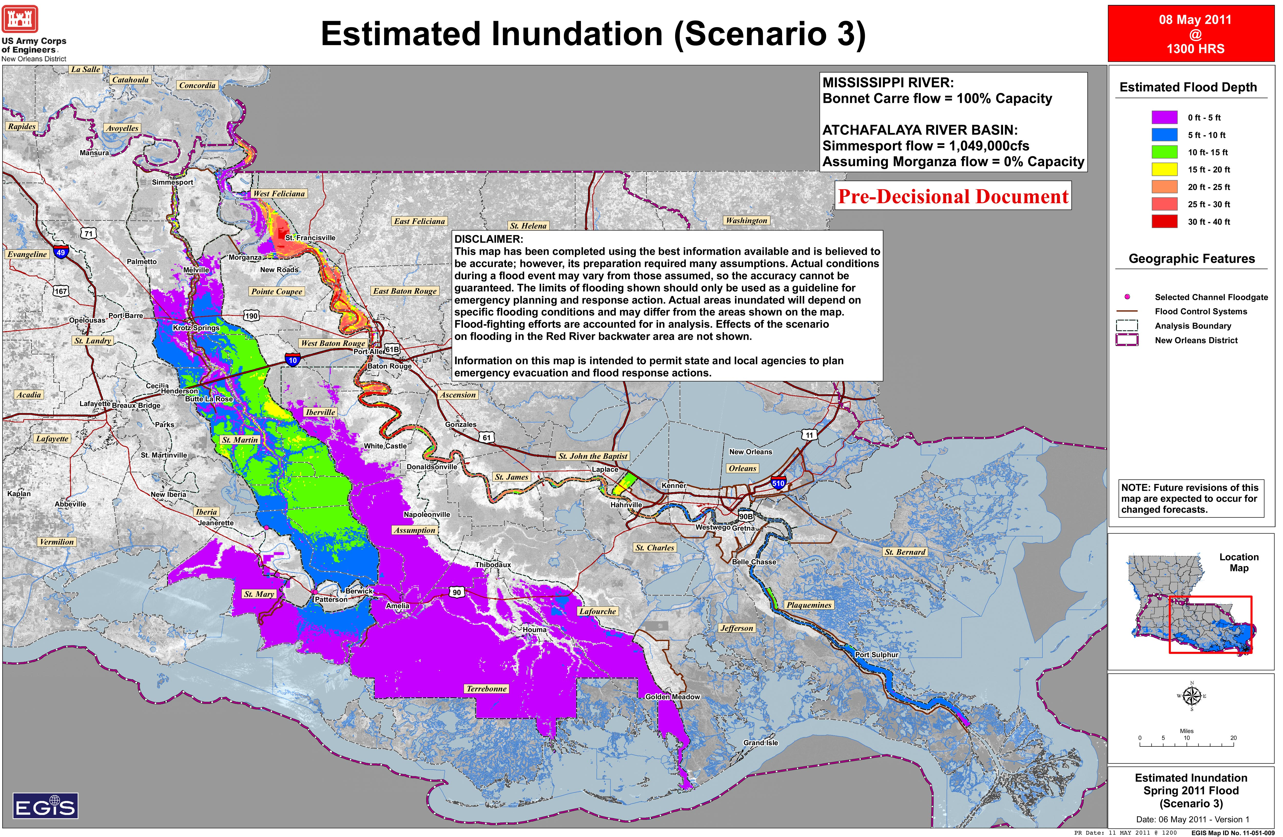 Inundation Map Scenario 3 depicting the anticipated impacts from non-operation of the Morganza Floodway with excess flowing through Old River and the Bonnet Carre’ Spillway operating at 100% capacity (